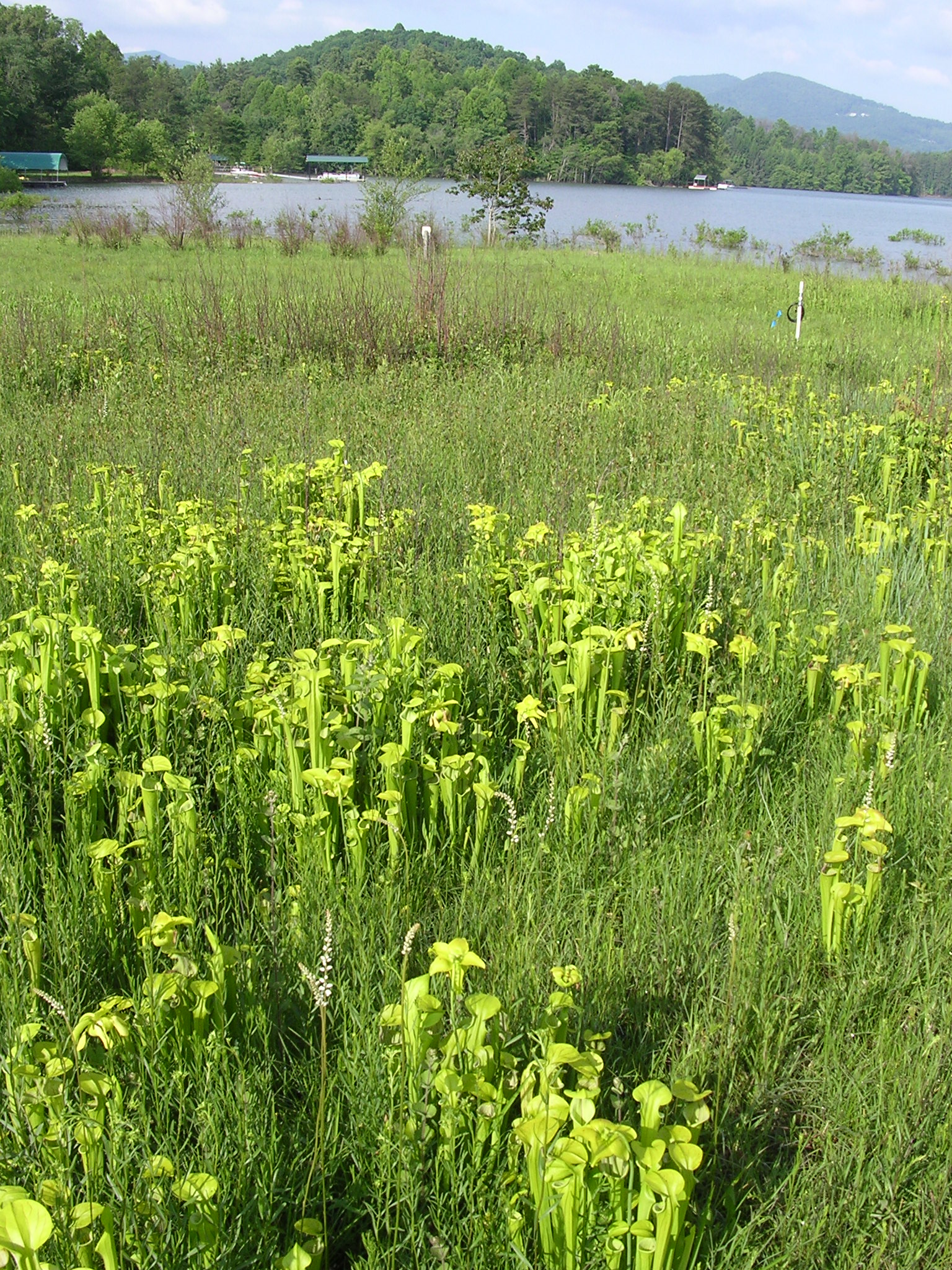 Sarracenia oreophila habitat, Georgia, USA